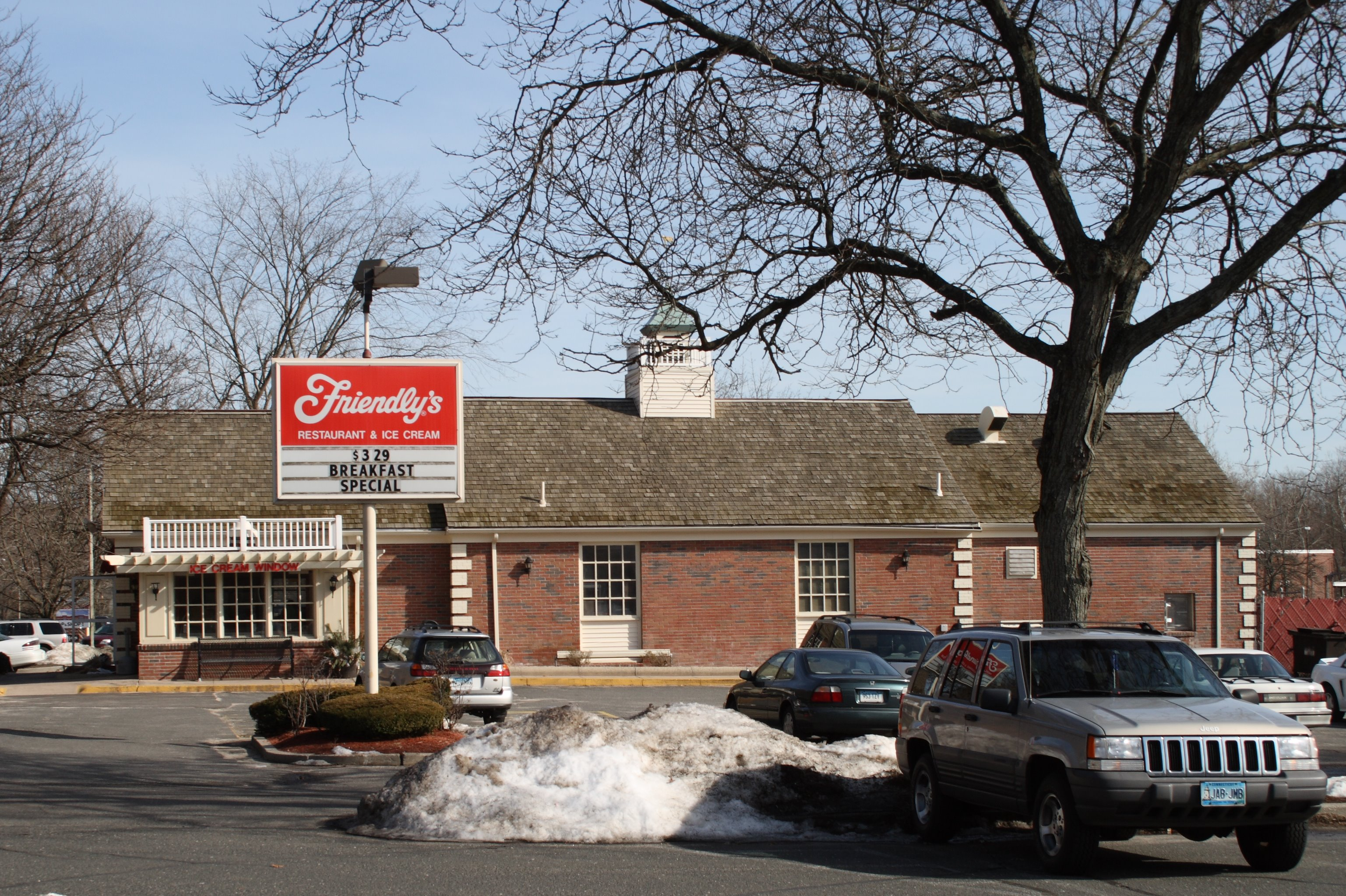 Friendly's Restaurant & Ice Cream, in Unionville (Farmington), Connecticut